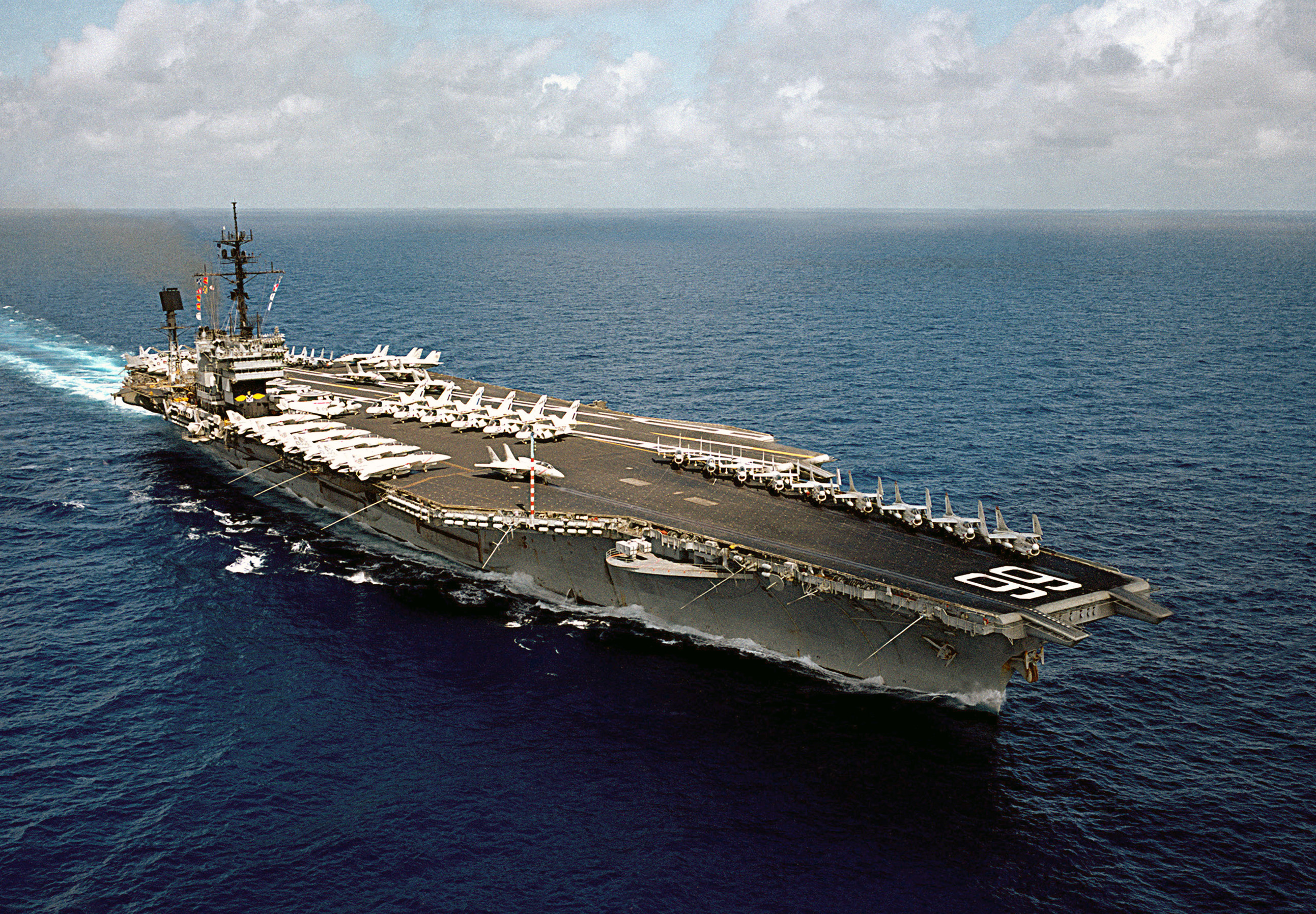 The U.S. Navy aircraft carrier USS America (CV-66) underway in the Indian Ocean, 24 April 1983. America, with assigned Carrier Air Wing 1 (CVW-1), was deployed to the Mediterranean Sea and the Indian Ocean from 8 December 1982 to 2 June 1983.